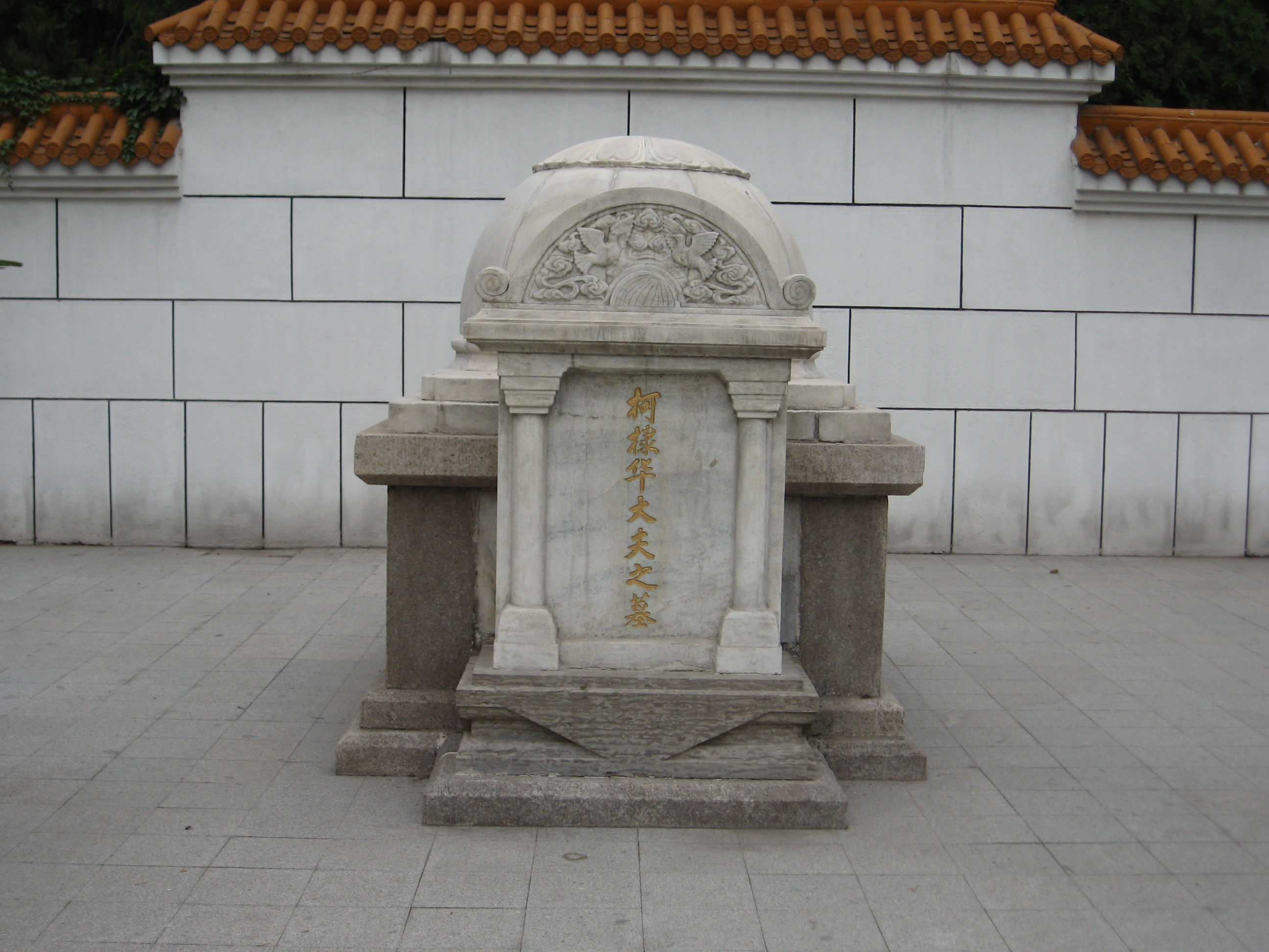 The tomb of Dwarkanath Kotnis in Shijiazhuang Hebei,China.中国河北省石家庄市华北军区烈士陵园内的柯棣华墓。